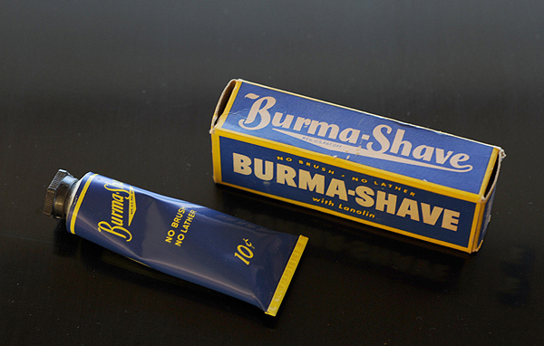 Very old but mostly-unused tube of Burma Shave, with box